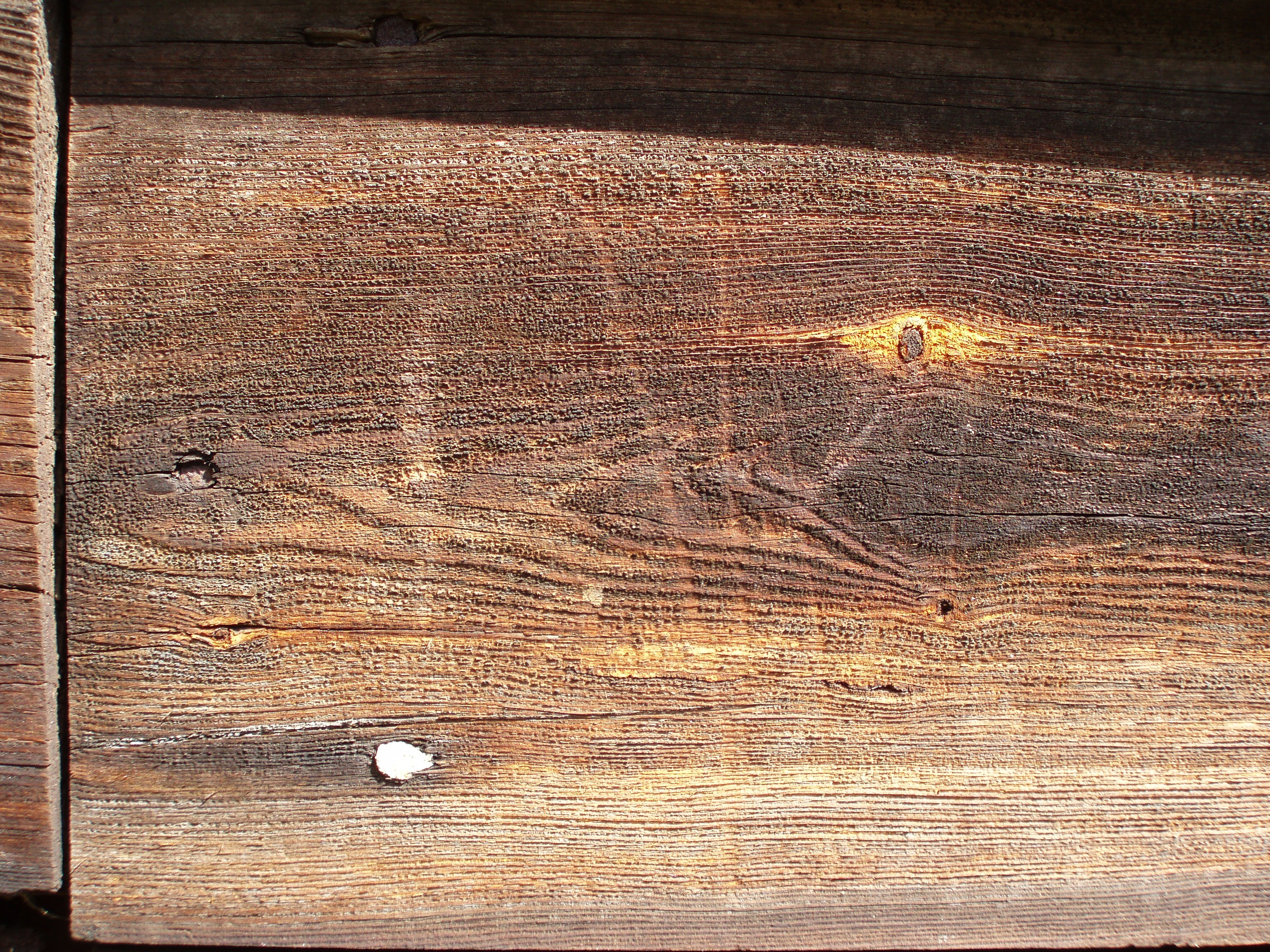 Scratched wooden plank of house facade.